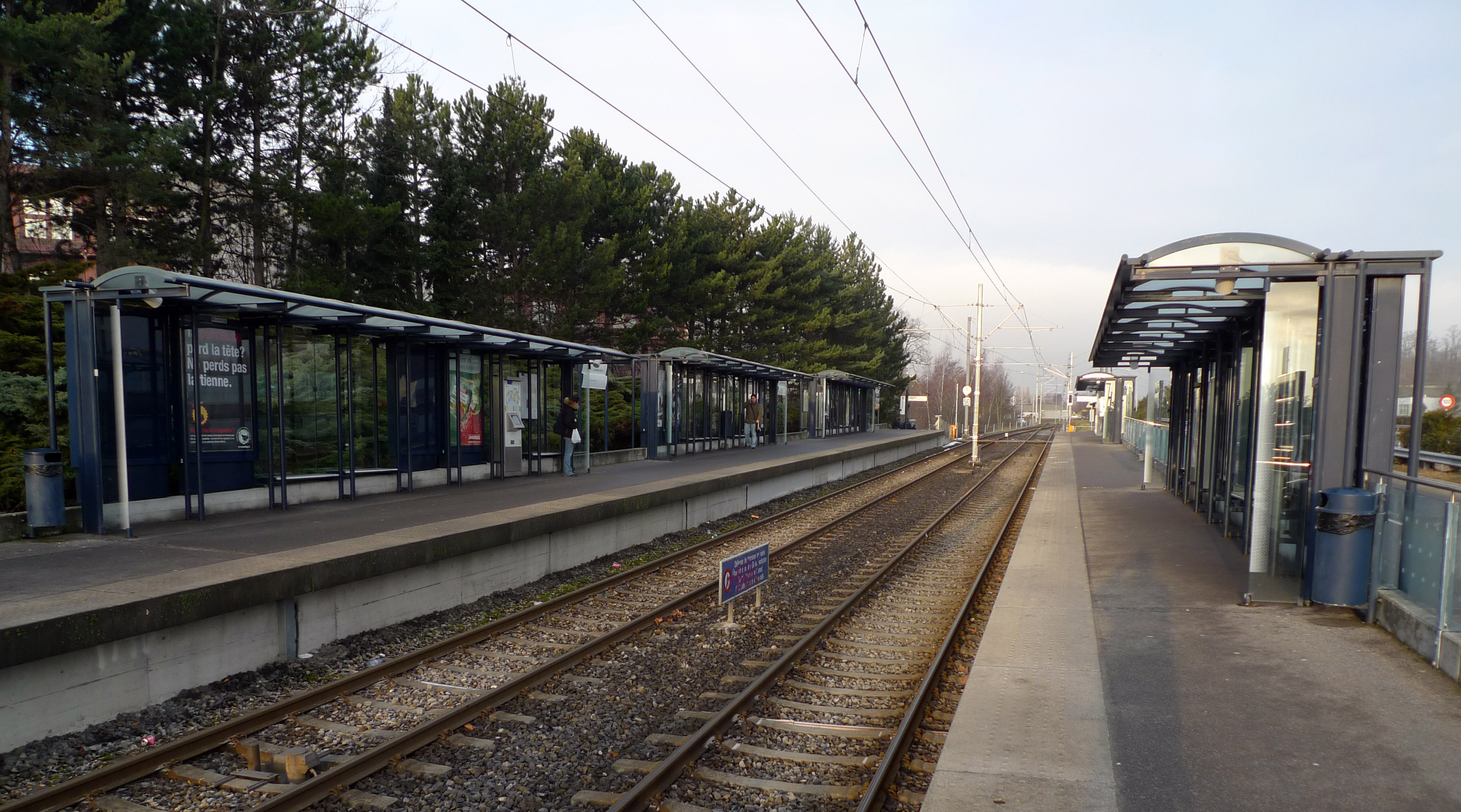 UNIL-Chamberonne station, formerly called UNIL-Dorigny before 2017, Lausanne Metro M1